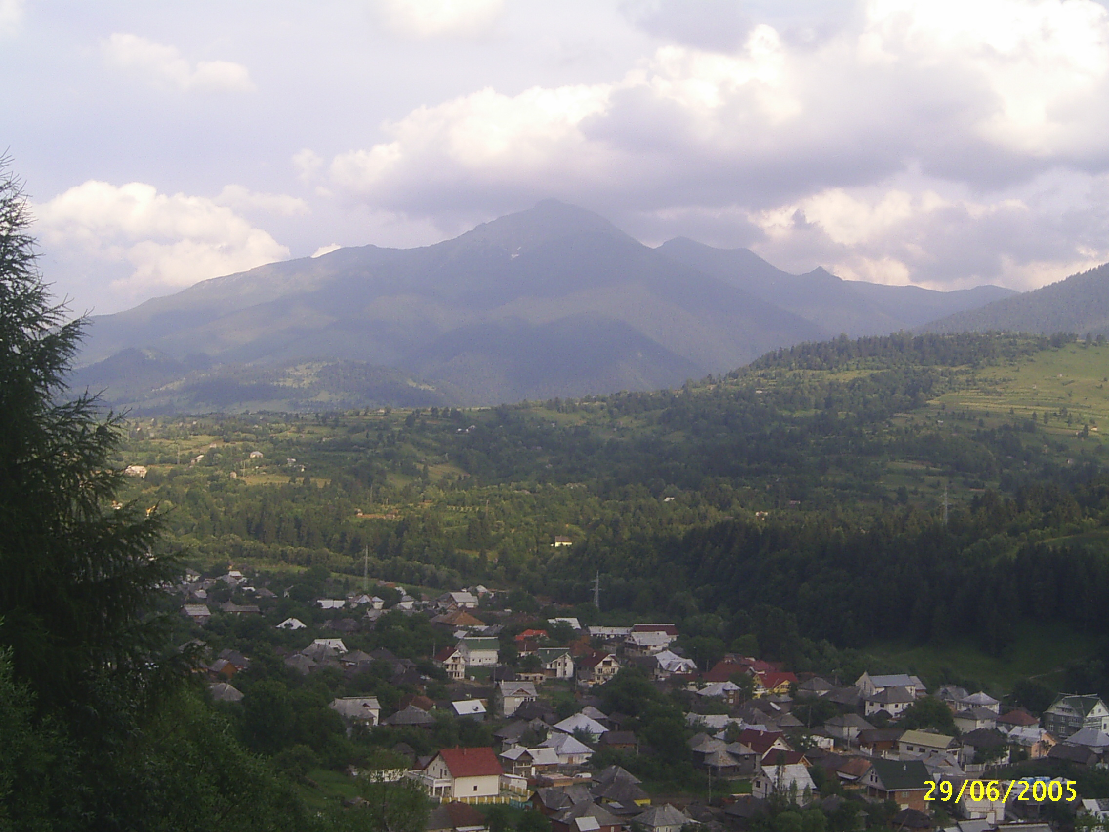 Moisei, Romania